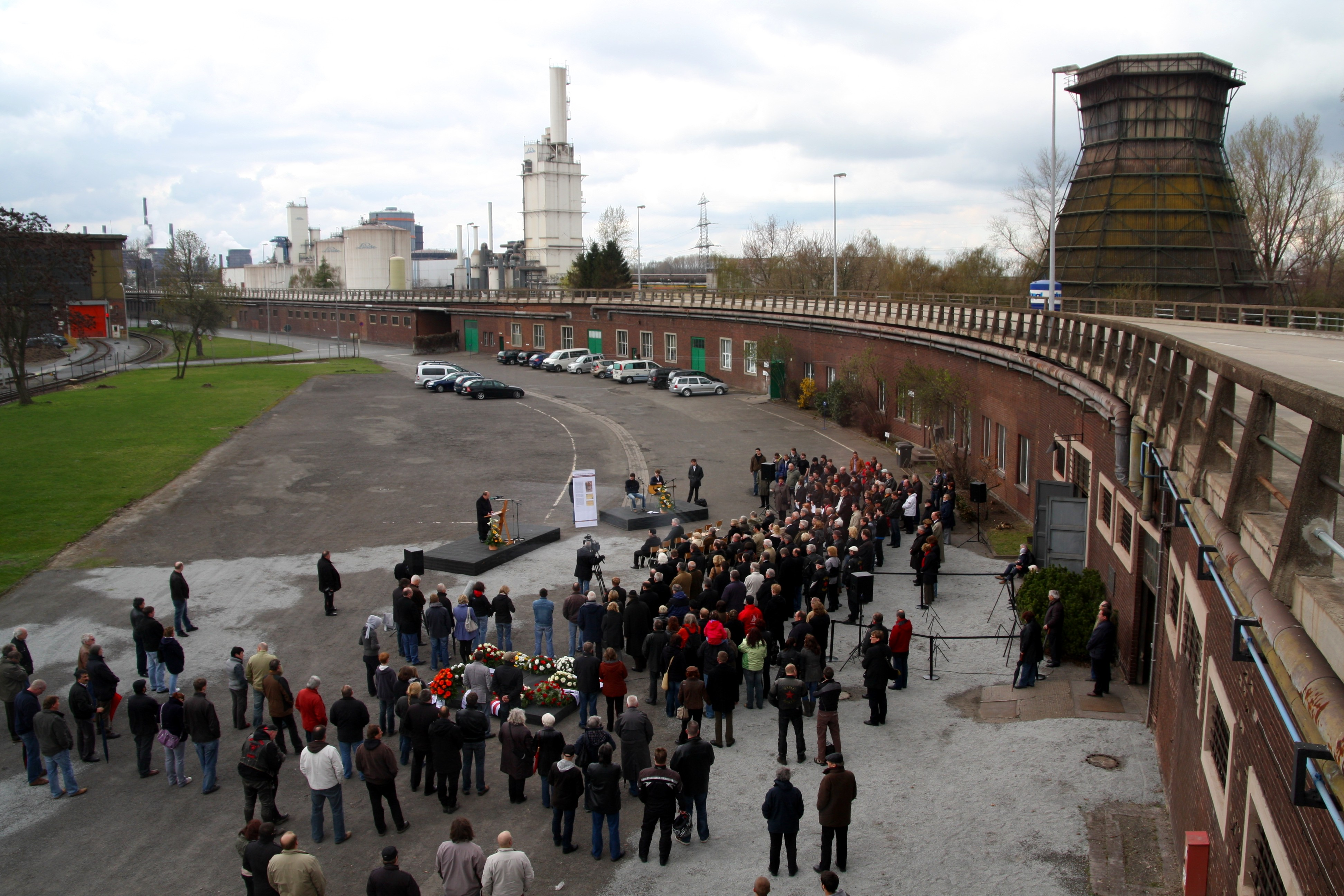 Salzgitter-Drütte concentration camp, subcamp of the Neuengamme concentration camp